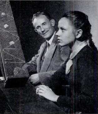 The psychical researcher Karlis Osis testing his stepdaughter Gunta Zukovaka in an alleged psychokinesis experiment.